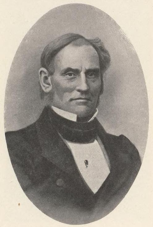 Norwegian professor of medicine Frans Christian Faye (1806–90)